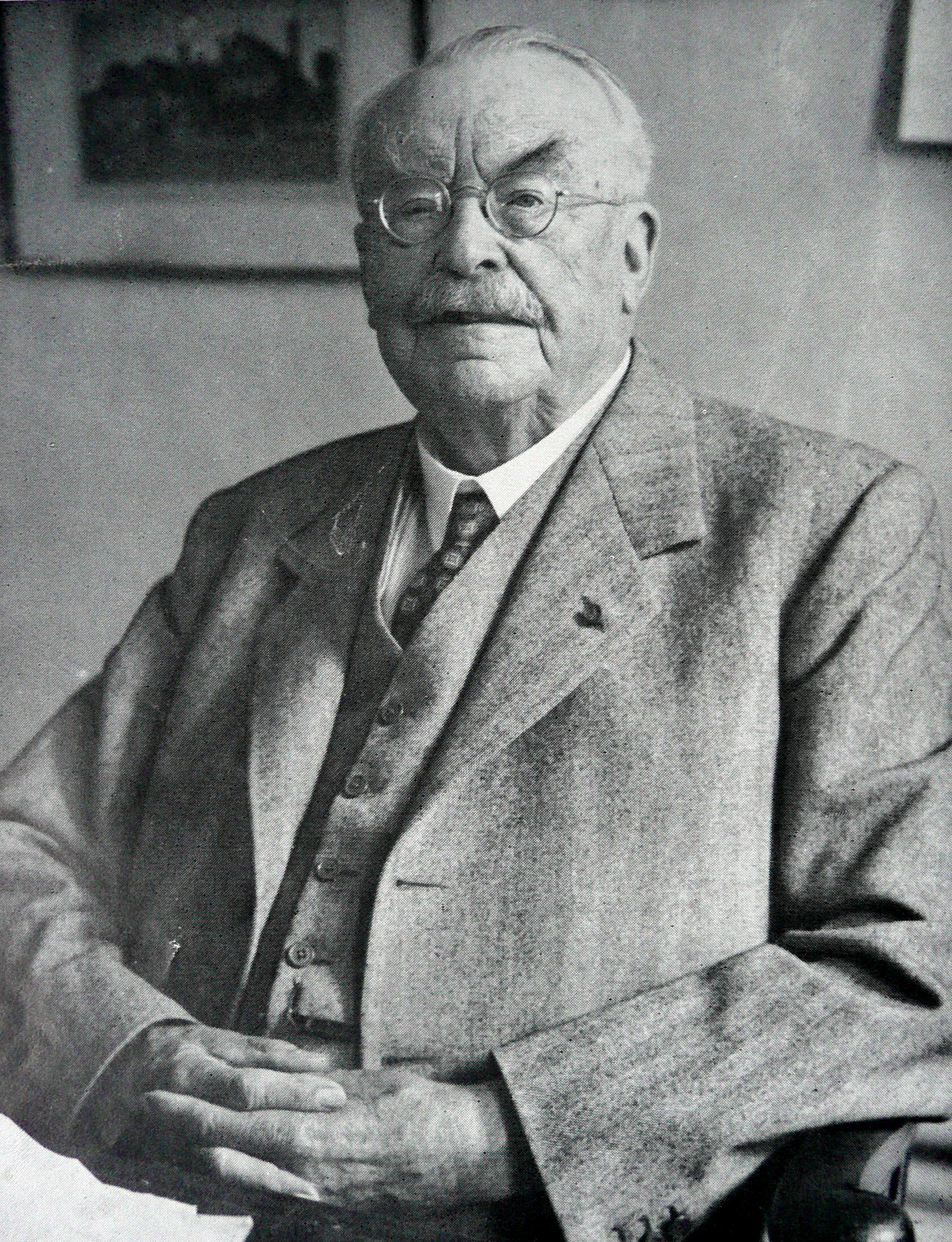 Sir Alfred Herbert on his 90th birthday